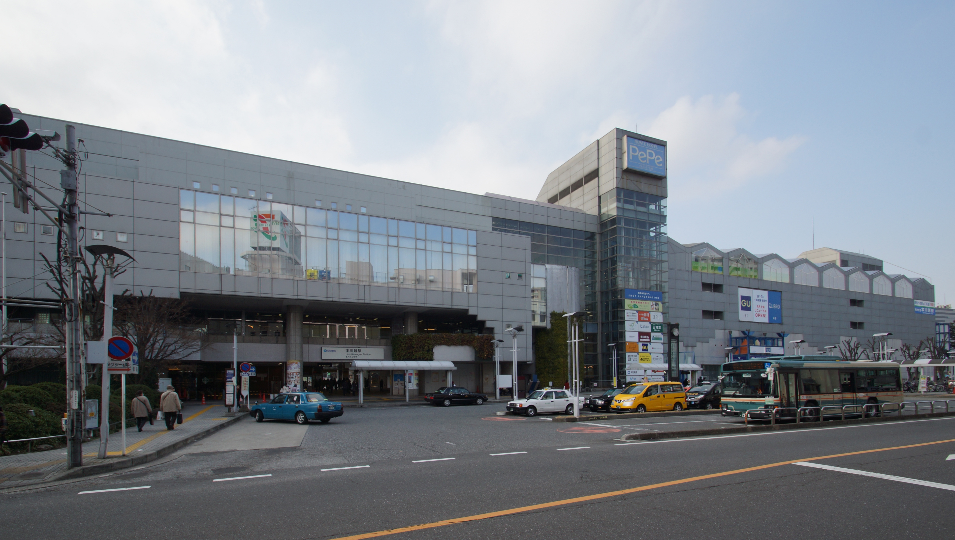 The east side of Hon-Kawagoe Station in Saitama Prefecture, Japan, with the Pepe department store on the right, and the Kawagoe Prince Hotel on the left